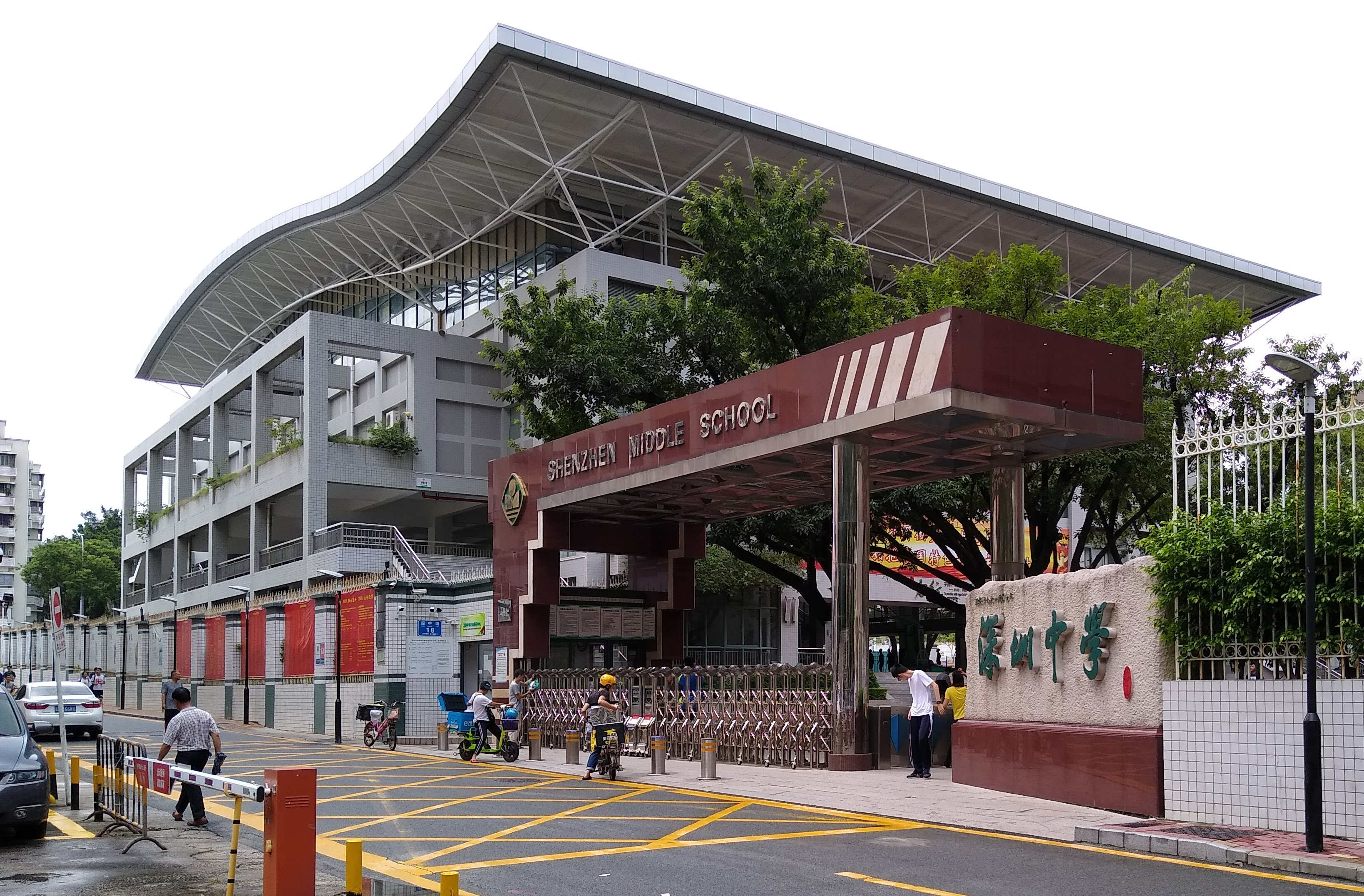 Shenzhen Middle School (深圳中学) in Luohu District, Shenzhen, China.